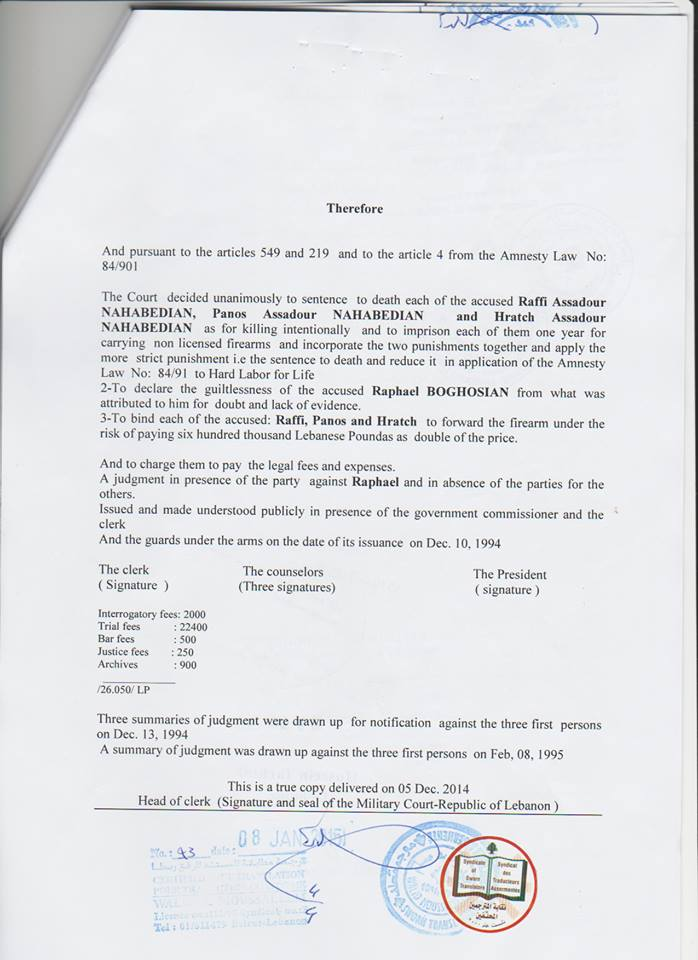 "The Bourj Hammoud Massacre". A photo of the official English translation of the judiciary verdict on the three participants of "The Bourj Hammoud Massacre"